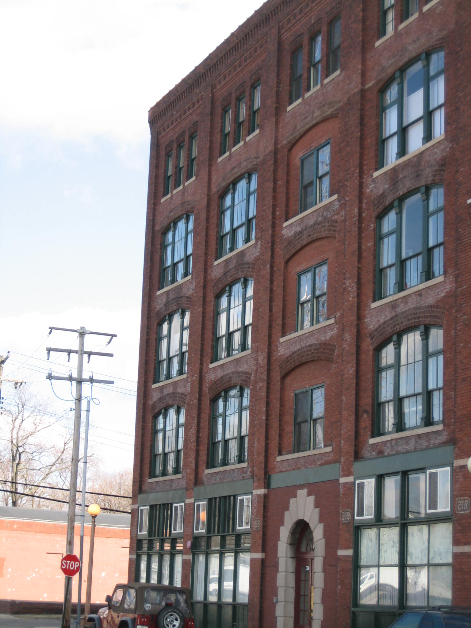 White Building (aka Heberling Building), Bloomington, Illinois, U.S. National Register of Historic Places.